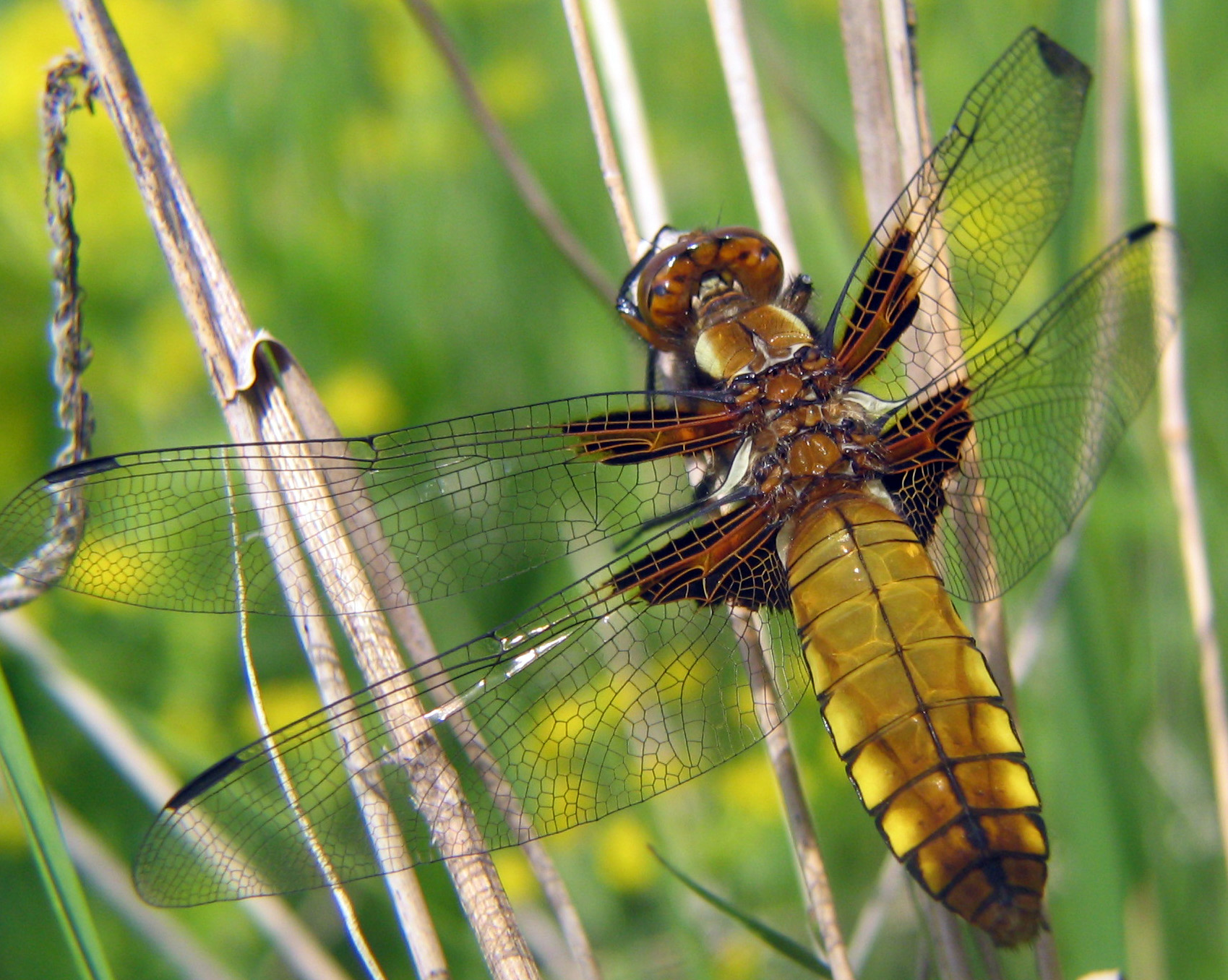 a female Libellula depressa, a dragonfly, photographed in southern Romania, a hilly area; found in a clearing near a river